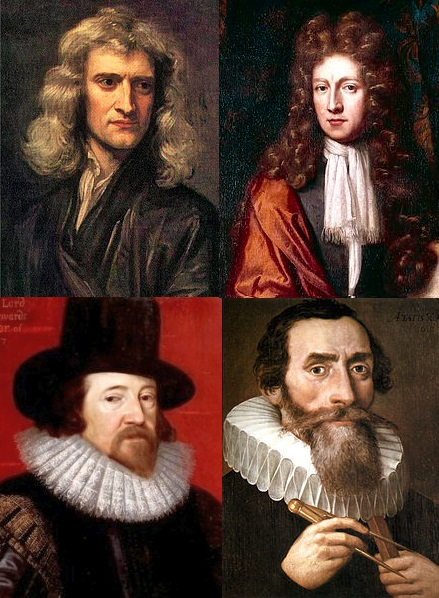 Scientists who committed themselves to study and practice Christianity. Isaac Newton, Robert Boyle, Francis Bacon & Johannes Kepler.